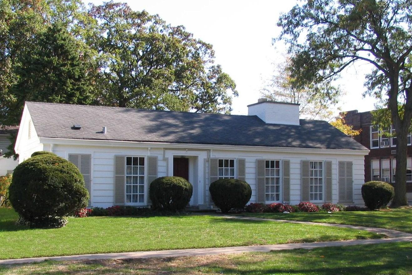 William Schreiber house, Blue Island, IL. Robert Seyfarth, architect. 1950